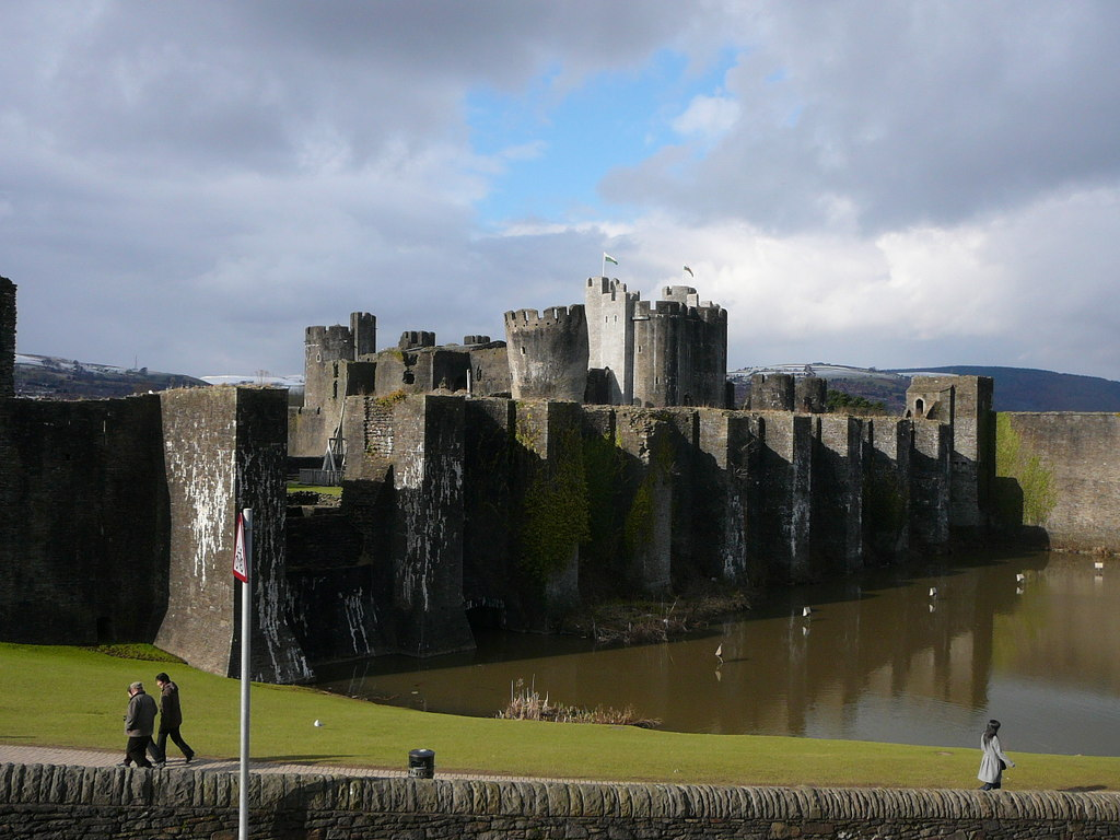 Eastern part of the moat and walls of Caerphilly Castle.